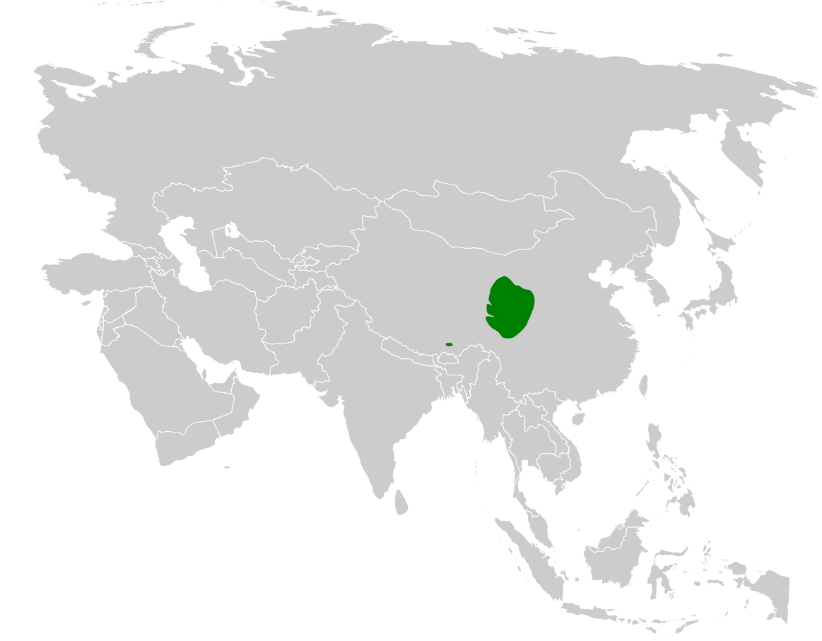 Poecile superciliosus distribution map, based on